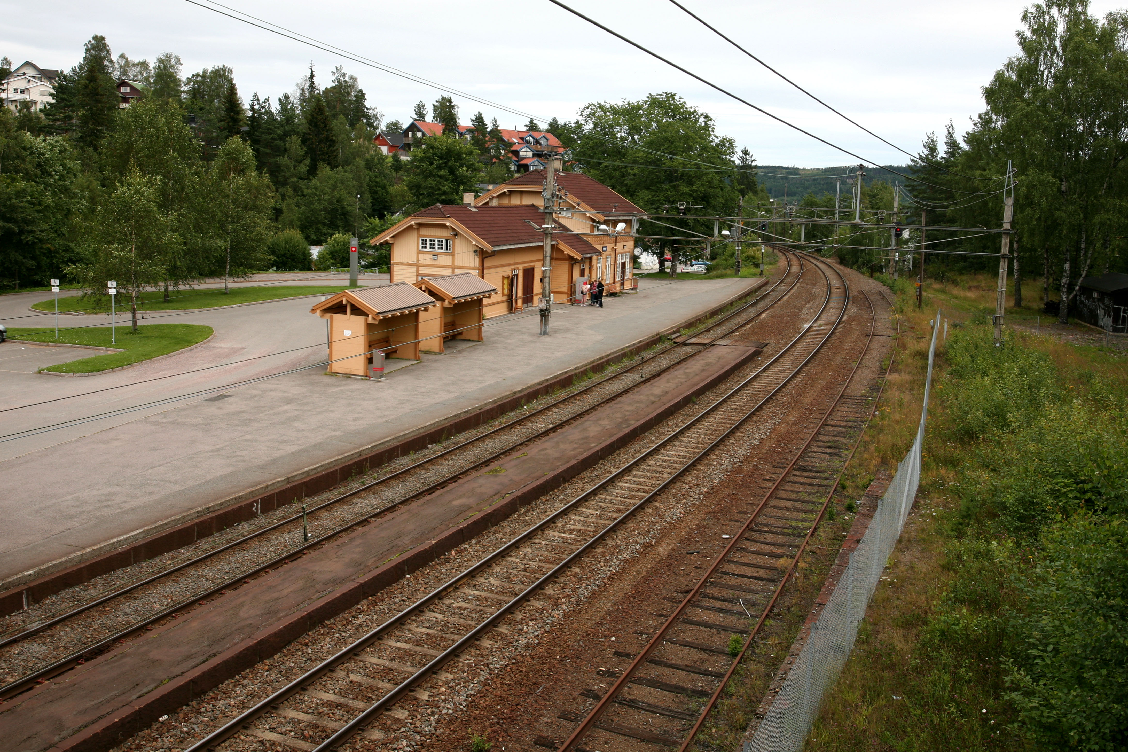 Picture of Nittedal Railway Station (Norway)